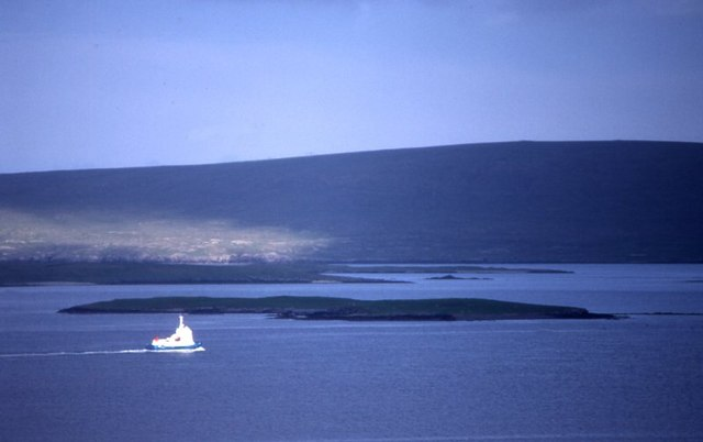 Sound Gruney from Yell; taken from North Sandwick on Yell. The Fetlar ferry passes the island of Sound Gruney.